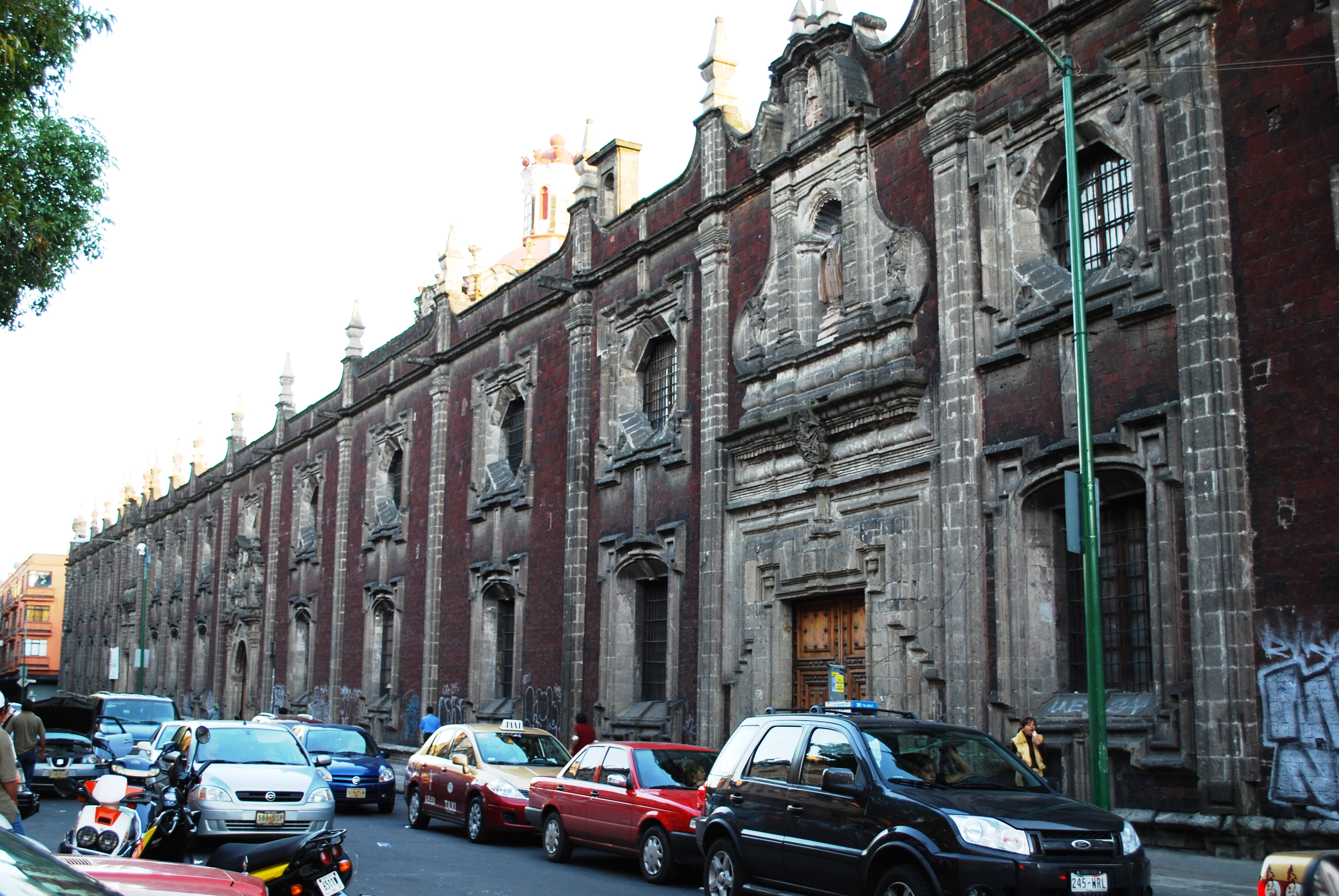 College of Vizcainas in Mexico City.